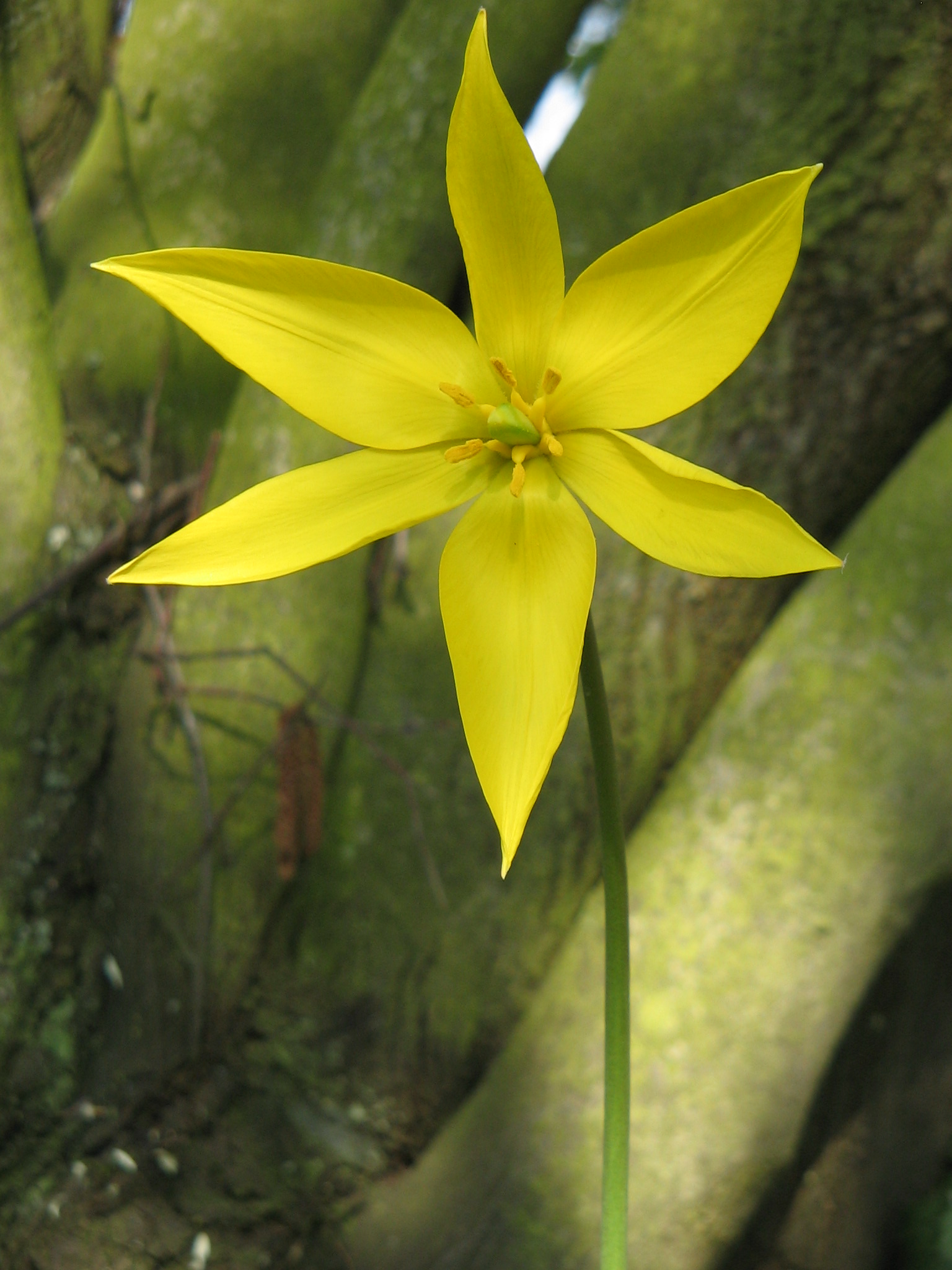 Tulipa_sylvestris - close-up flower